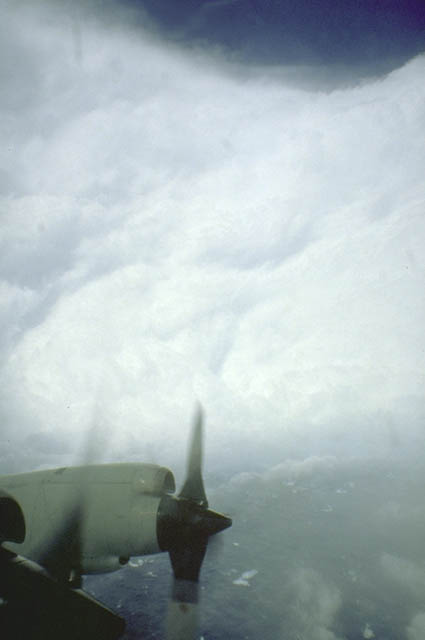 Panorama of Hugo's eye.